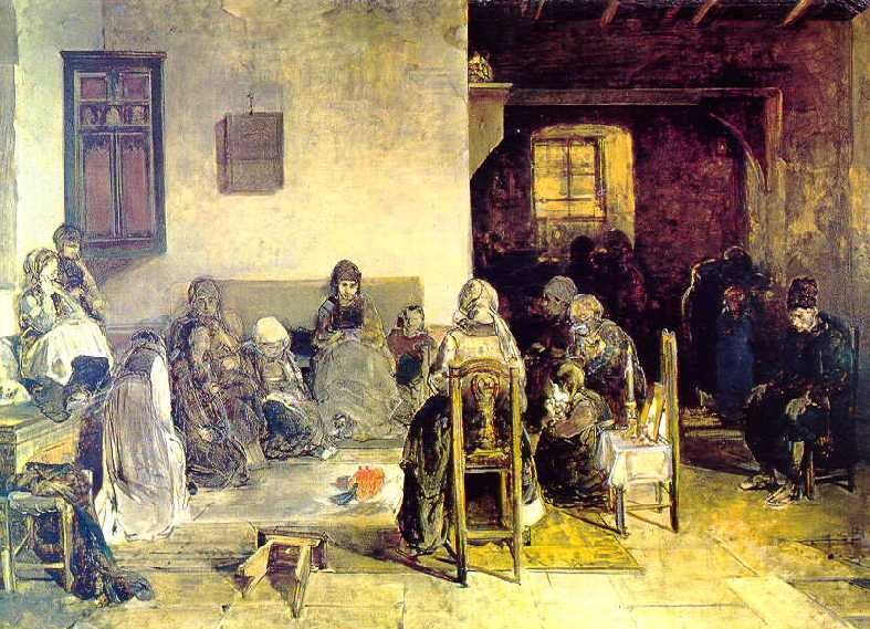 Nikiforos Lytras, Mourning at Psara (1888), oil on canvas, National Gallery of Greece-Alexandros Soutzos Museum